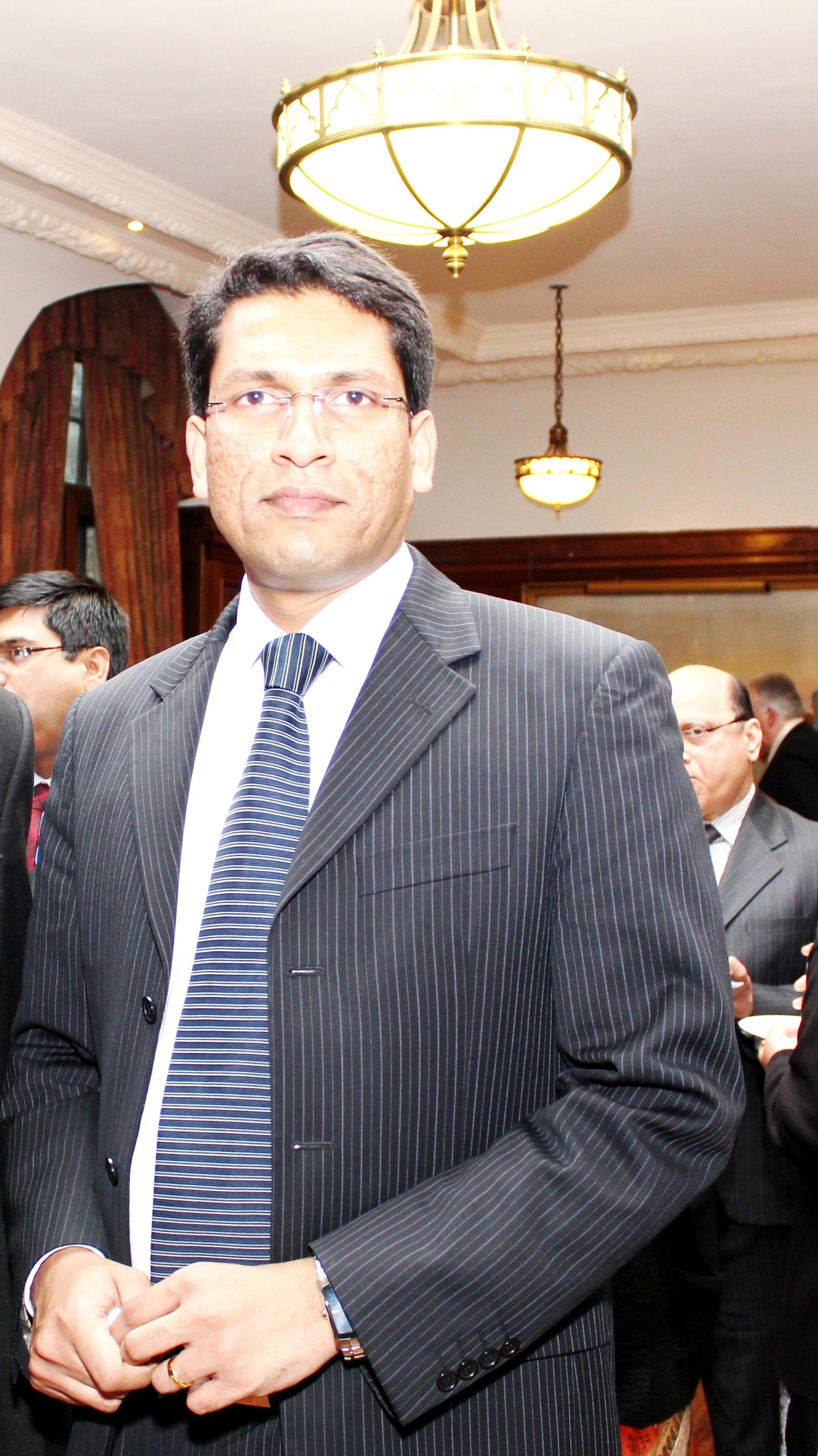 own work